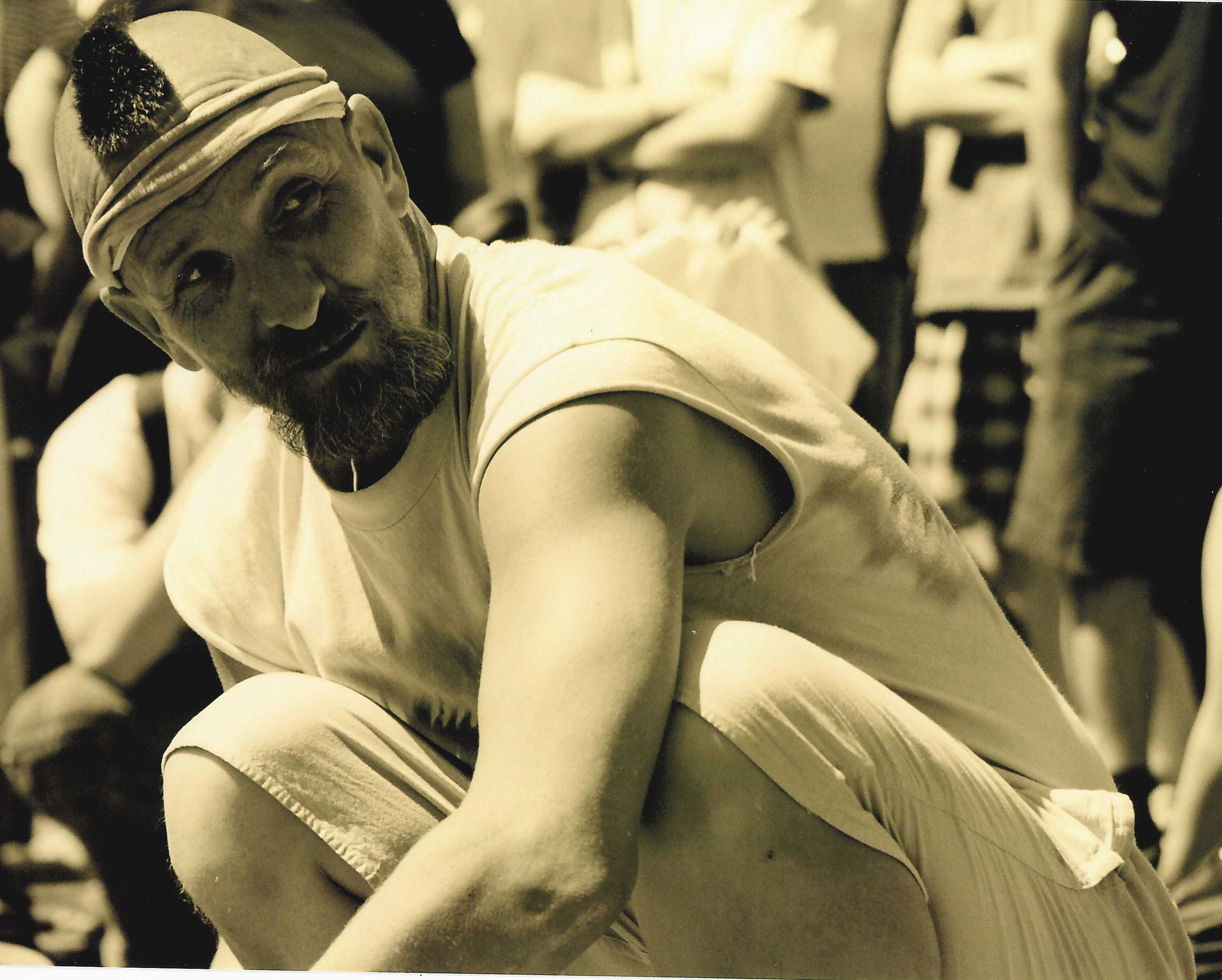 Artis the Spoonman, University District Street Fair, Seattle Washington, 1995.